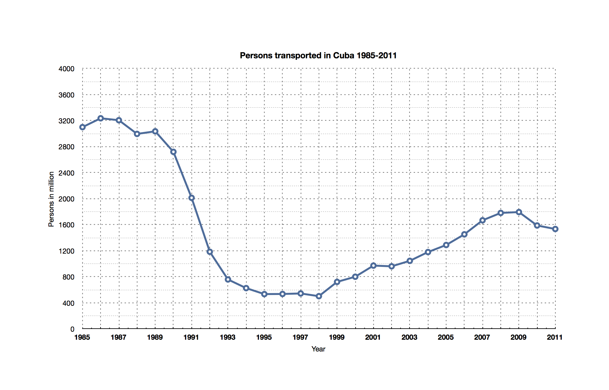 Persons transported in Cuba, 1985-2010 according to current Cuban statistics und ONE 2012.